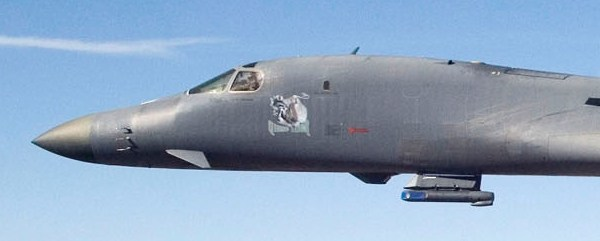 A B-1B Lancer carries the Sniper pod on its belly as it flies over Edwards' skies during a flight test here. The Sniper pod is an advanced targeting pod with a multi-sensor system that increases the aircraft's self-targeting capability.